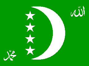 Flag of the former federal islamic republic of the comores 1978